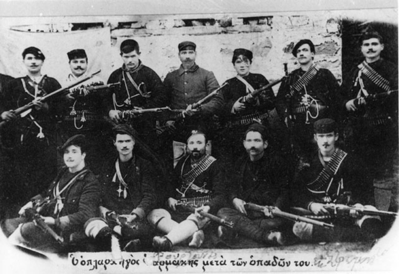 Haralampi Kozarev andart cheta